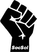 Logo of Socialist Solidarity